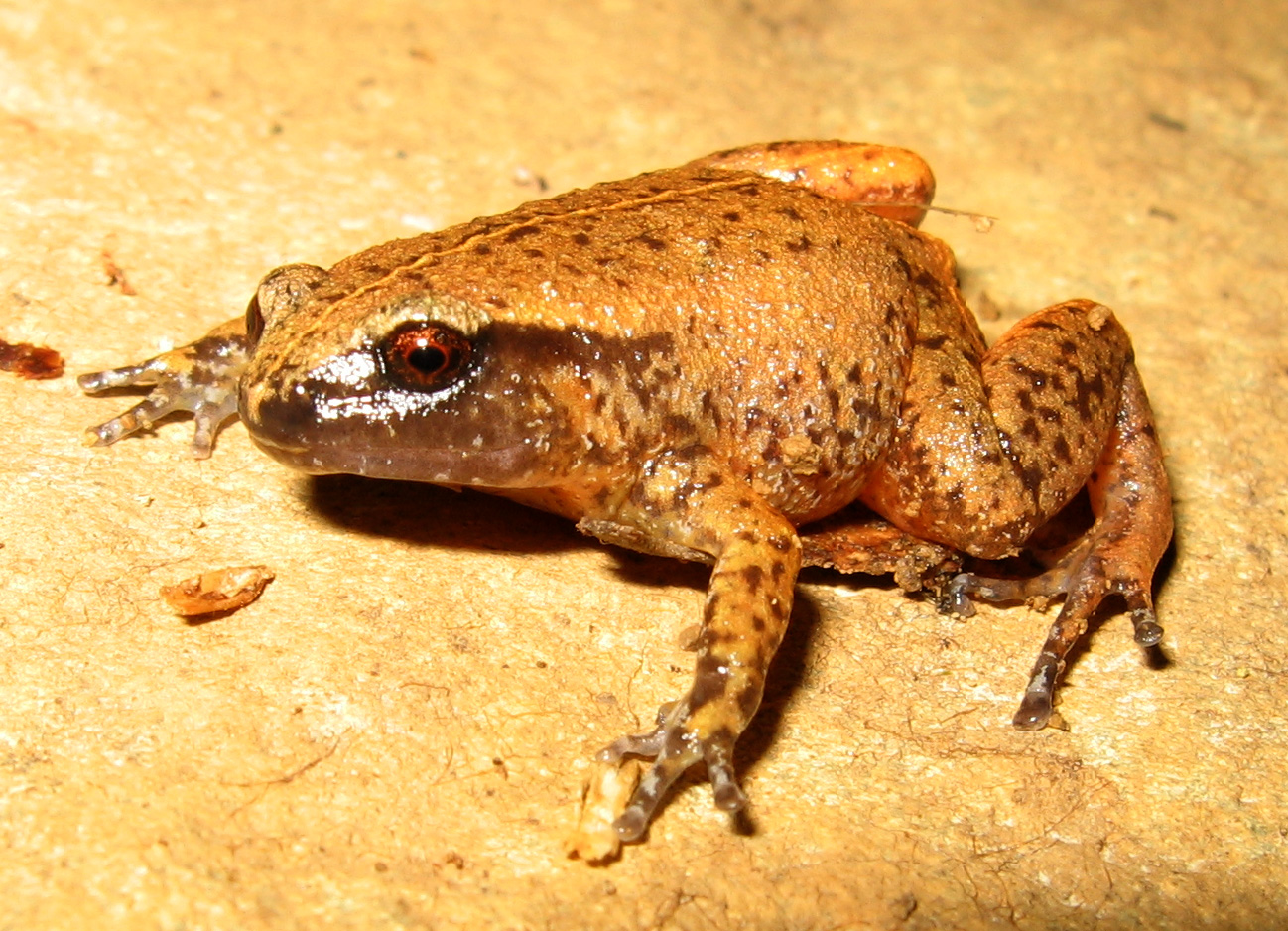 The Rain Frog (Austrochaperina pluvialis) from far-north Queensland.